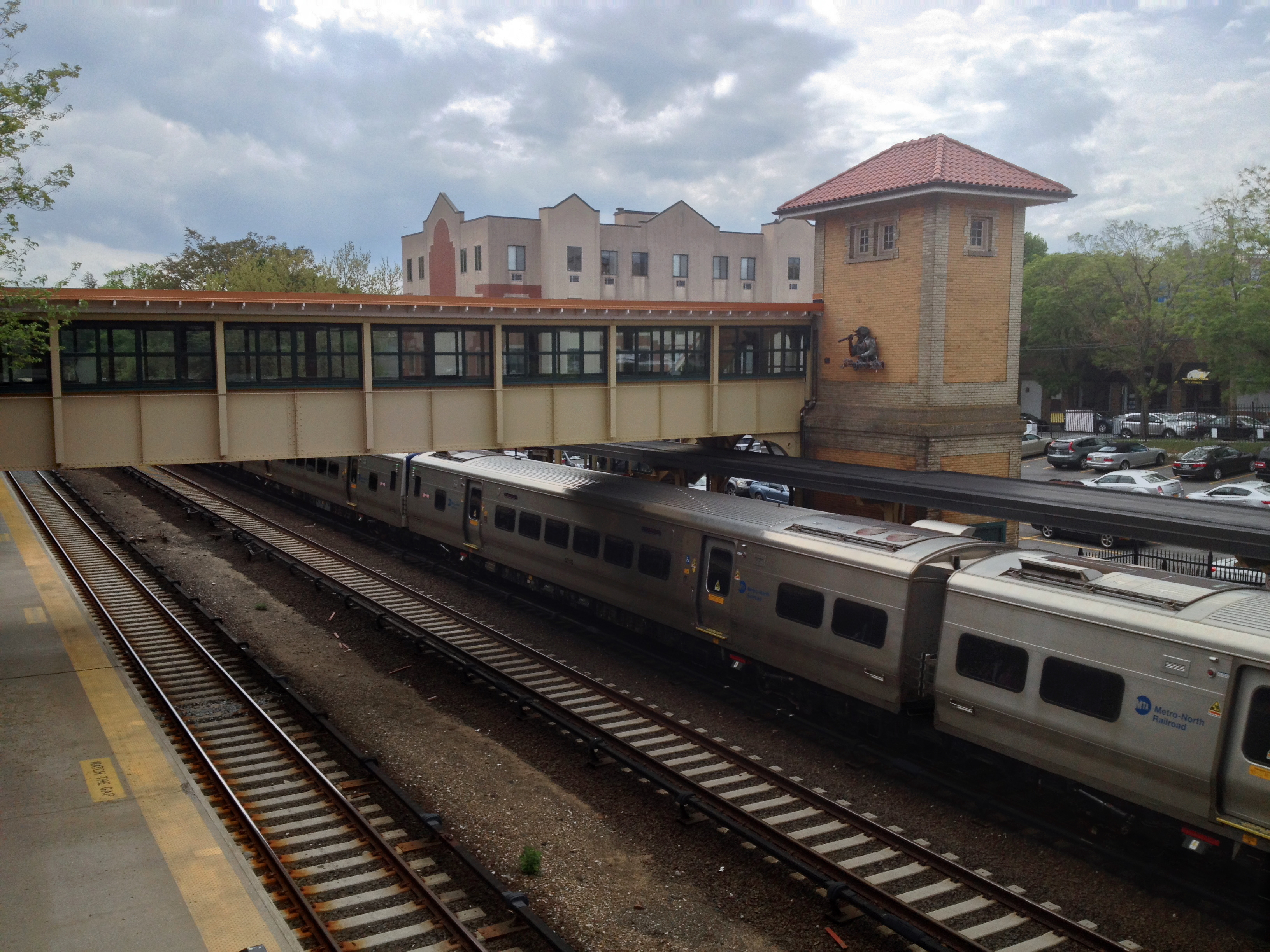 The Metro-North railroad station in Tuckahoe, New York. May 2015